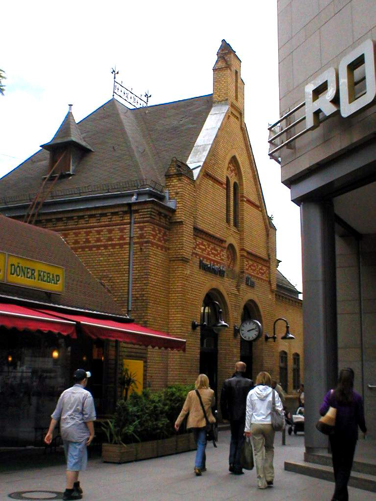 Southern entrance building of the Frankfurter Allee railway station.